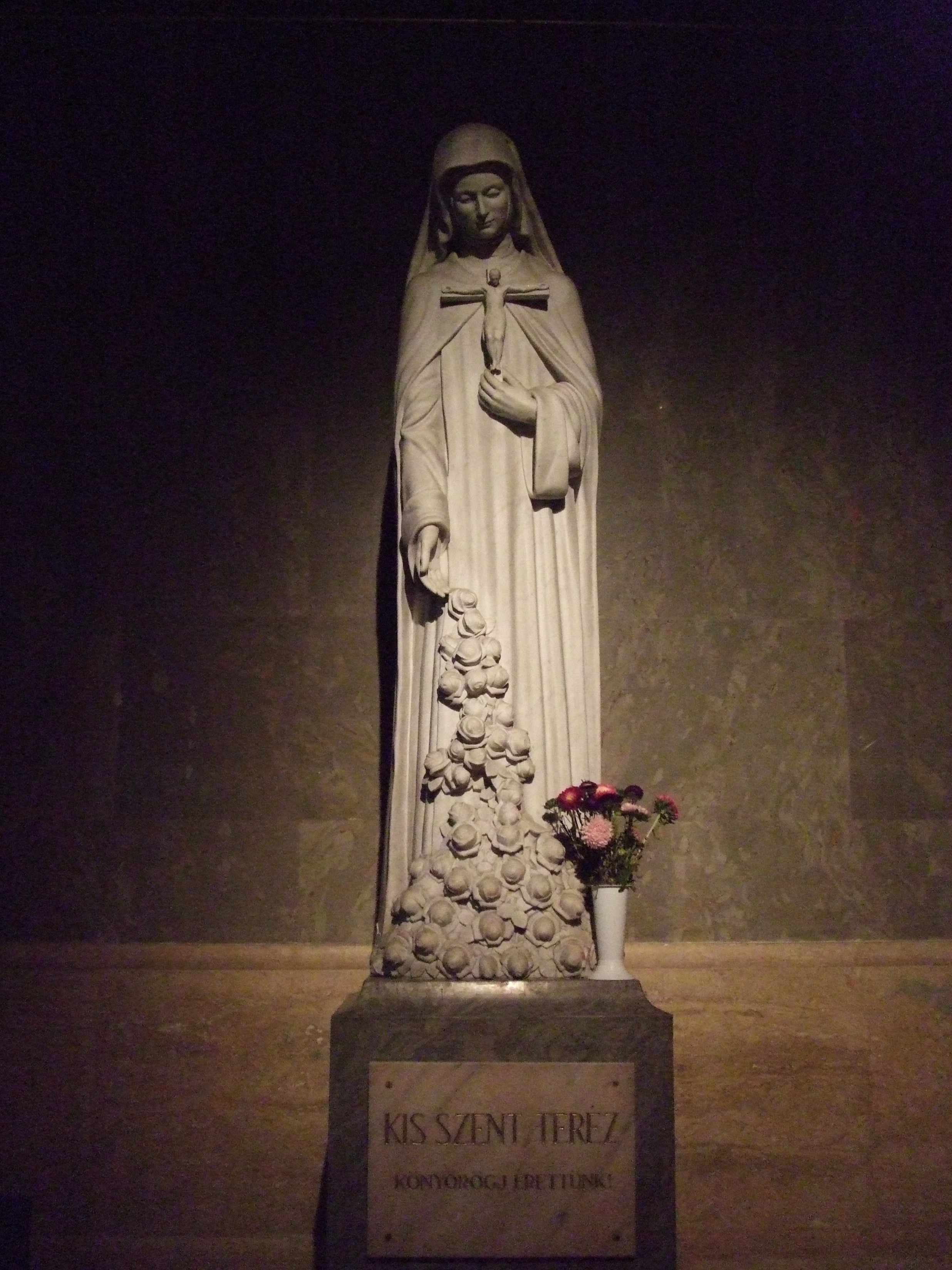 Figure St. Terese in the Saint Stephen's Basilica